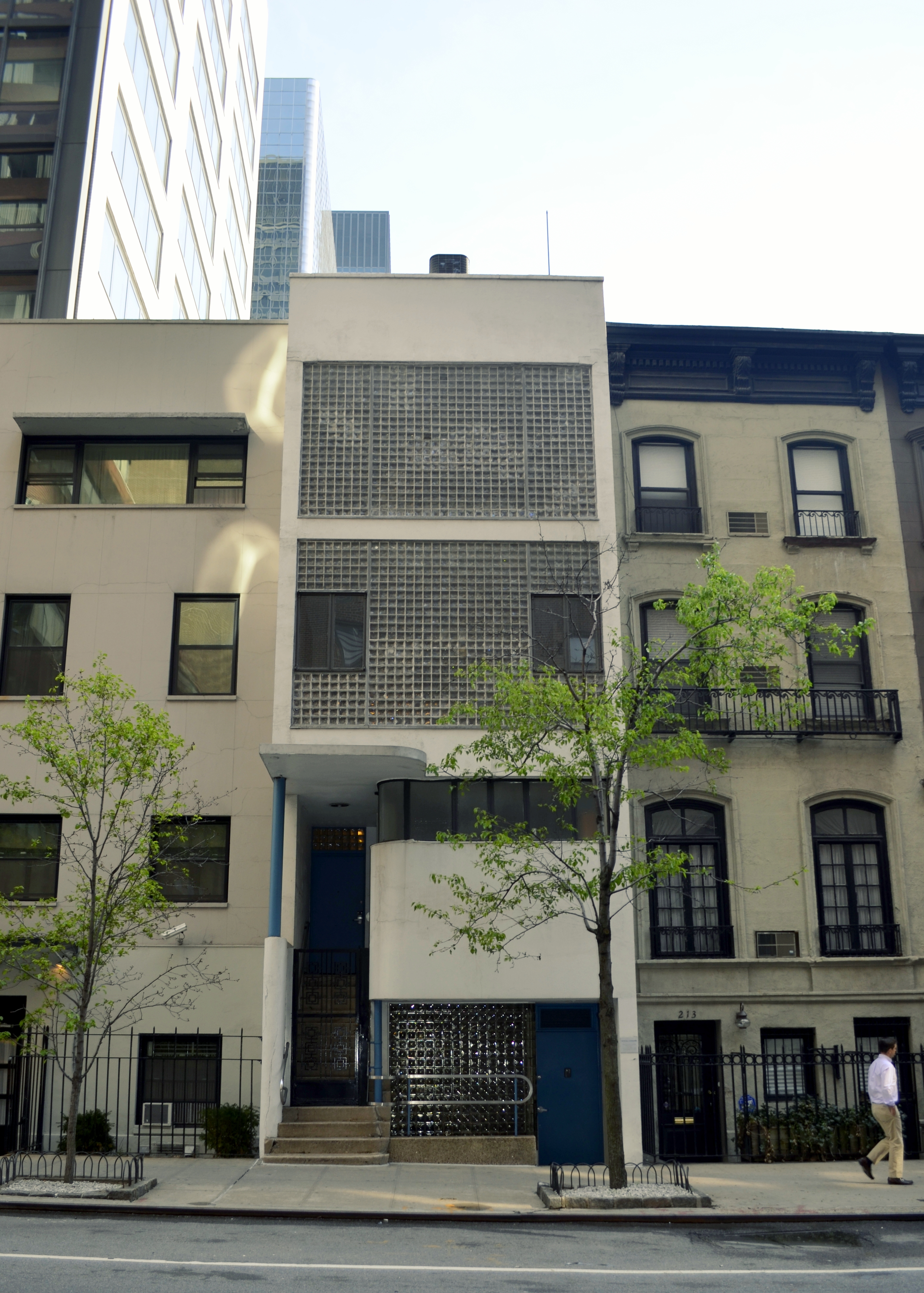 William Lescaze House and Office, 1934: New York City, William Lescaze.